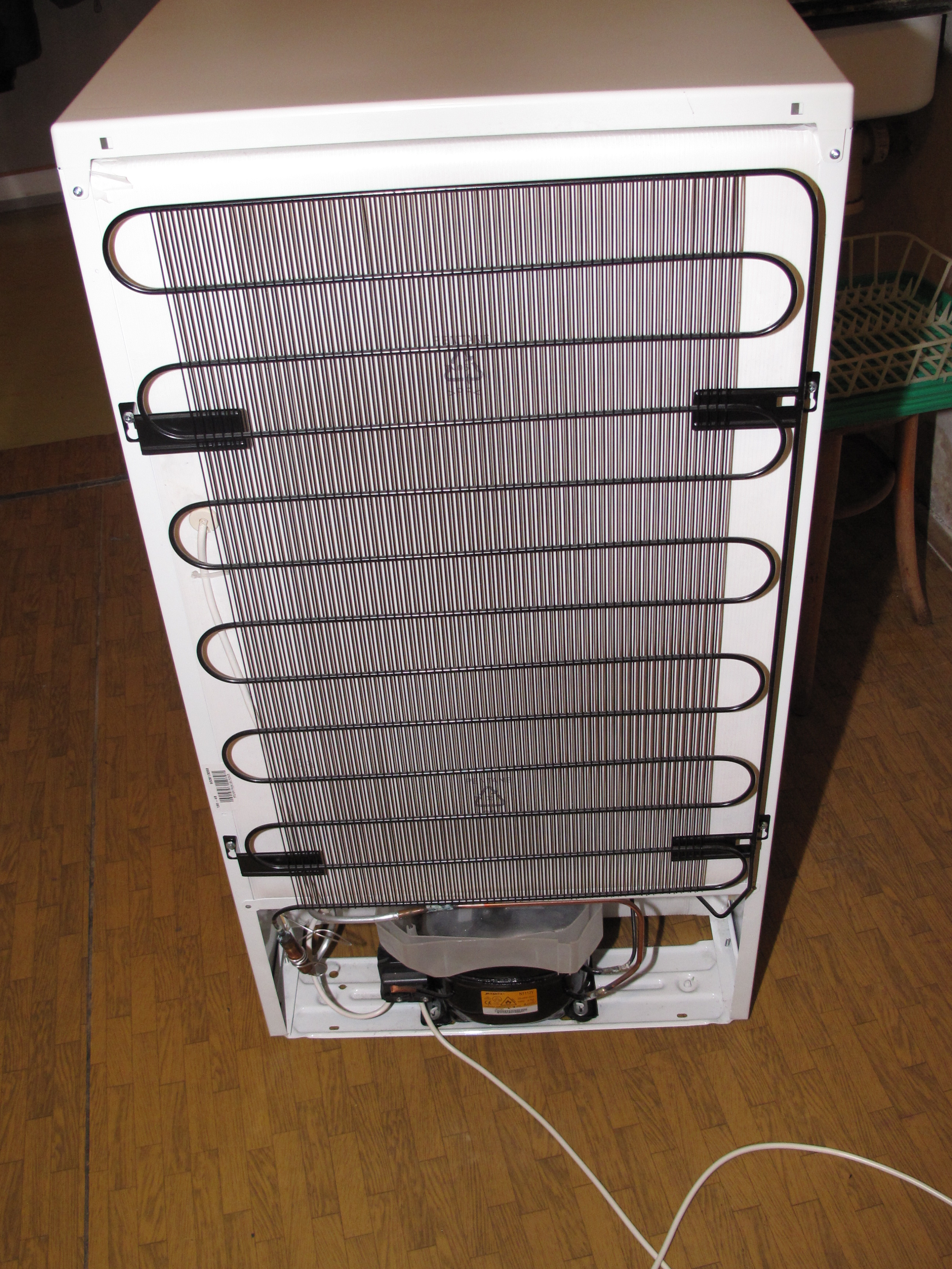 From the other side, Zanussi fridge, type ZRA 319 SW.